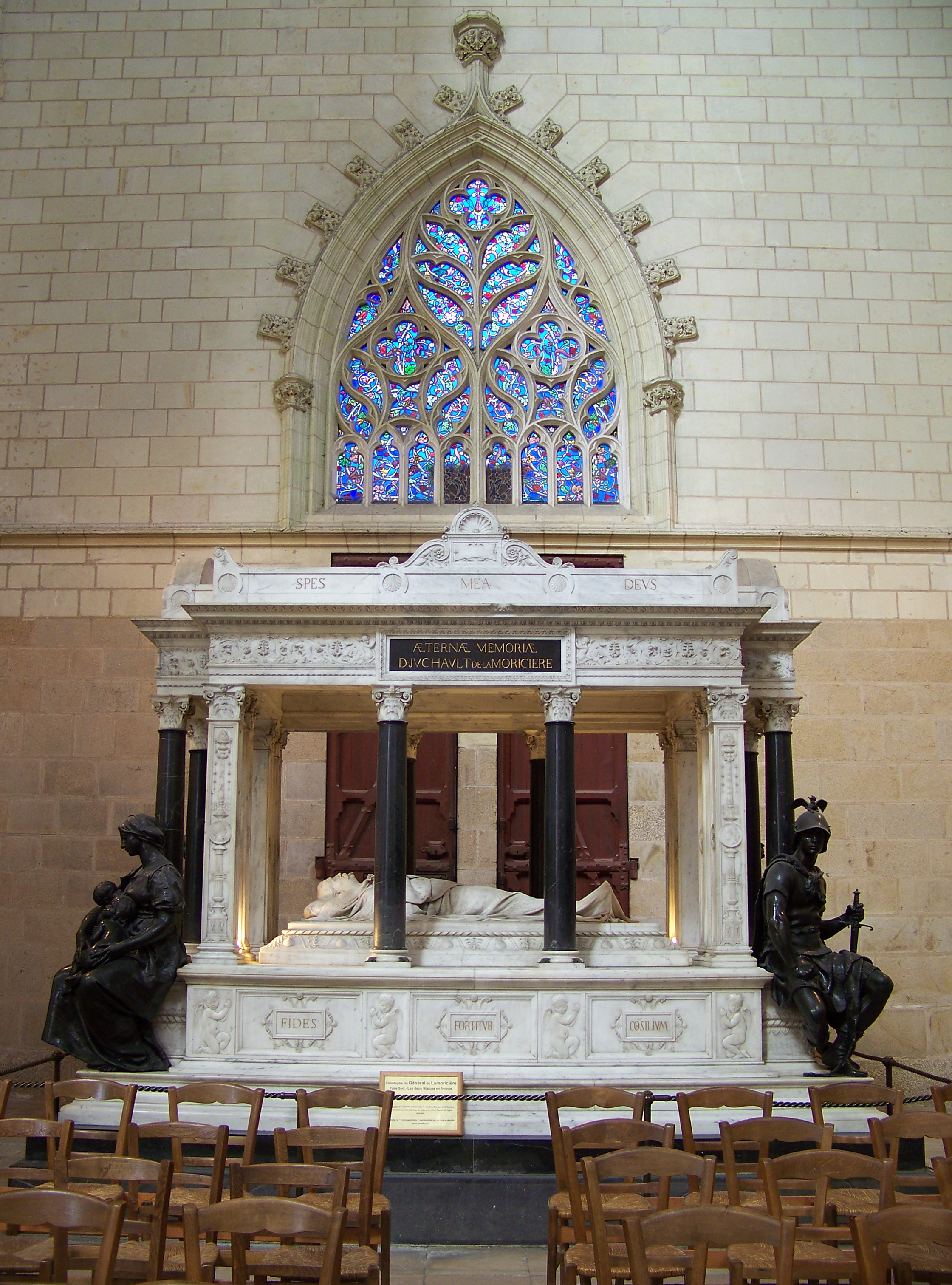 Cenotaph of the general de Lamoricière in the Cathédrale Saint-Pierre et Saint-Paul de Nantes (northern transept). The statues at the corners are allegories of "Universal Charity" (front left), "Warlike Force" (front right), "Wisdom" (back left) and "Faith" (back right).